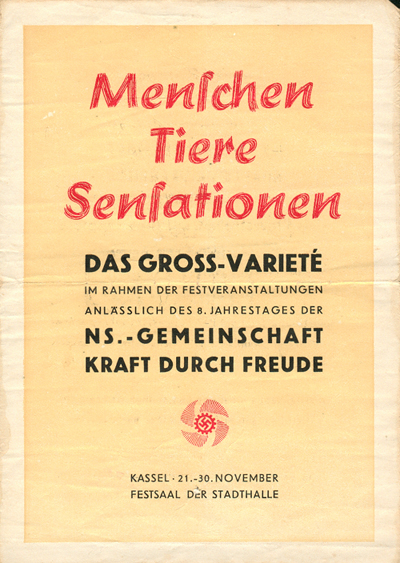 Announcement of a "Kraft durch Freude" ("Strength through Joy") variety show, year unknown (8th anniversary of the KdF's foundation was on 27th November 1941)